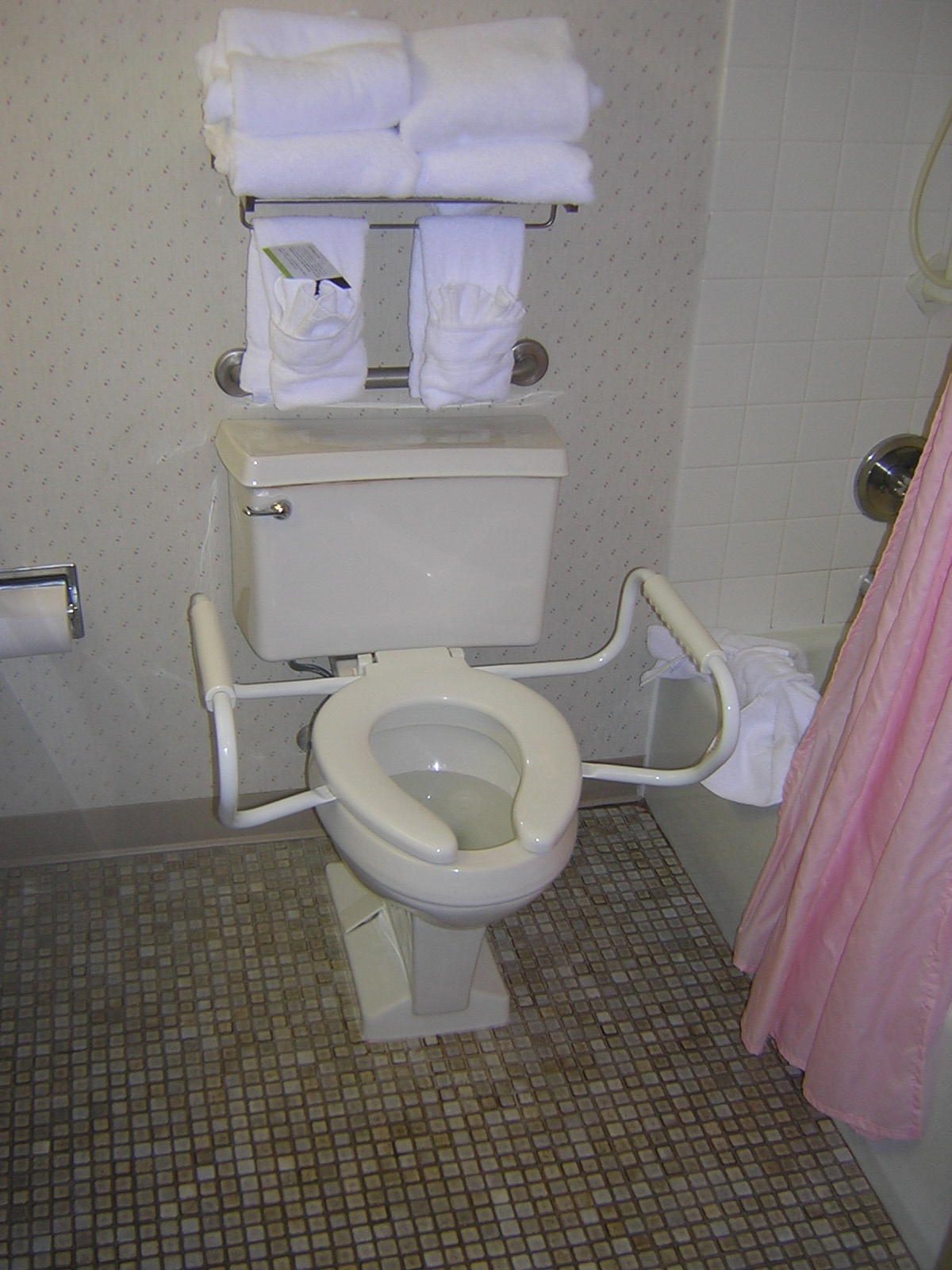 Acessible toilet with handles